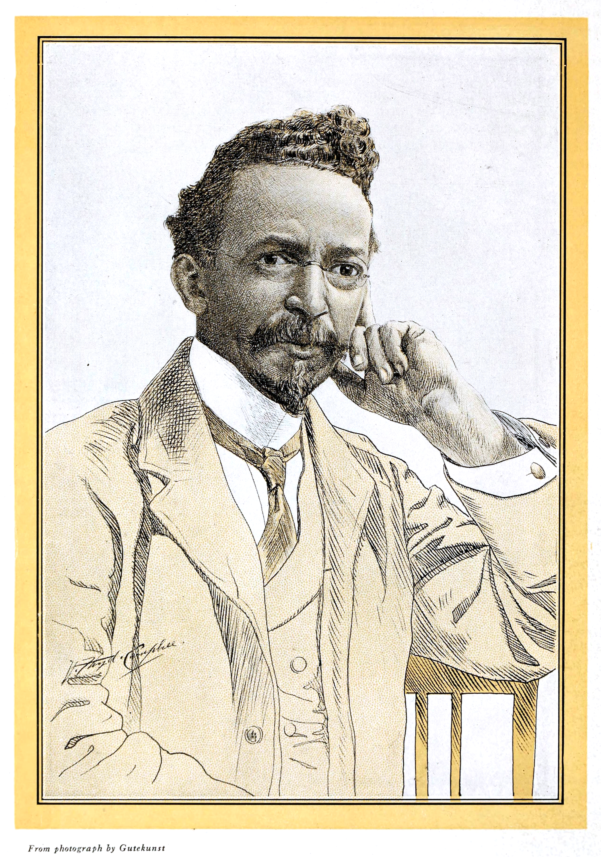 Portrait of Henry Ossawa Tanner by V. Floyd Campbell